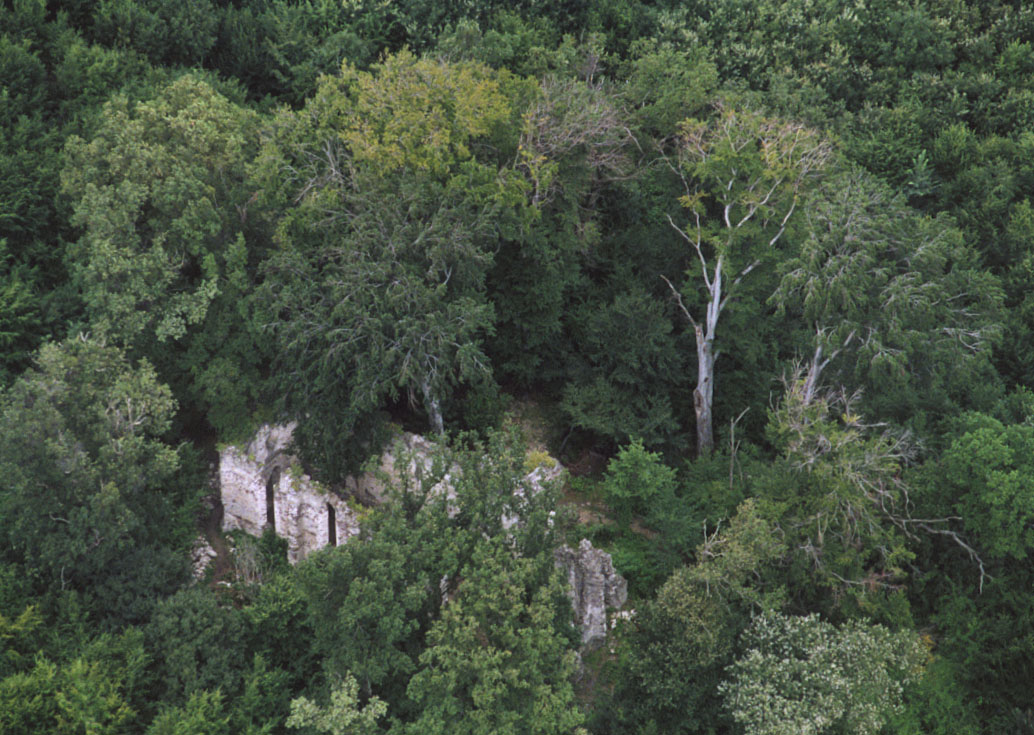 Pauliner Convent - Gönc - Hungary - Europe